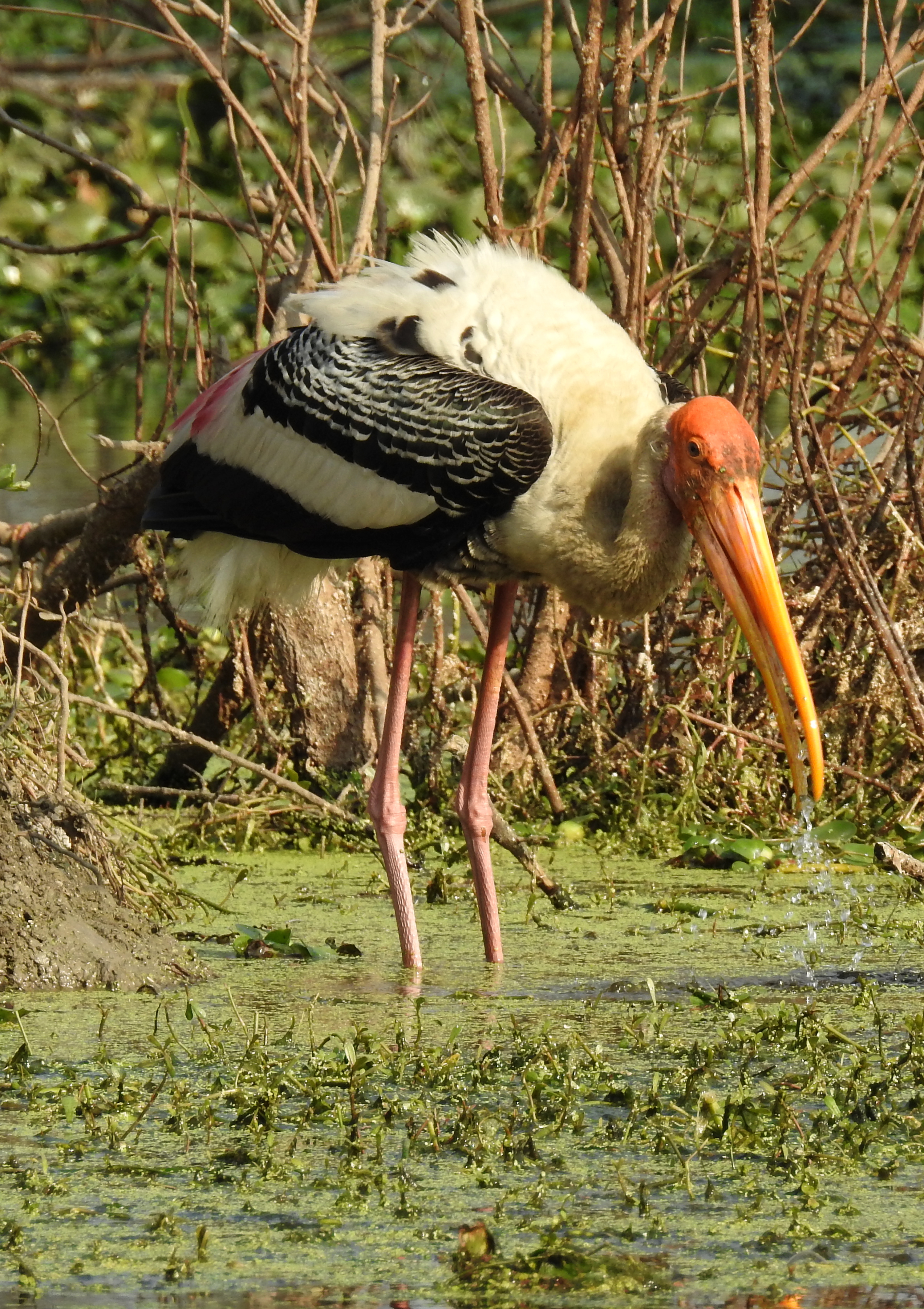 Painted Stork Mycteria leucocephala by Dr. Raju Kasambe. Photographed at Keoladeo National Park, Bharatpur, Rajasthan, India.